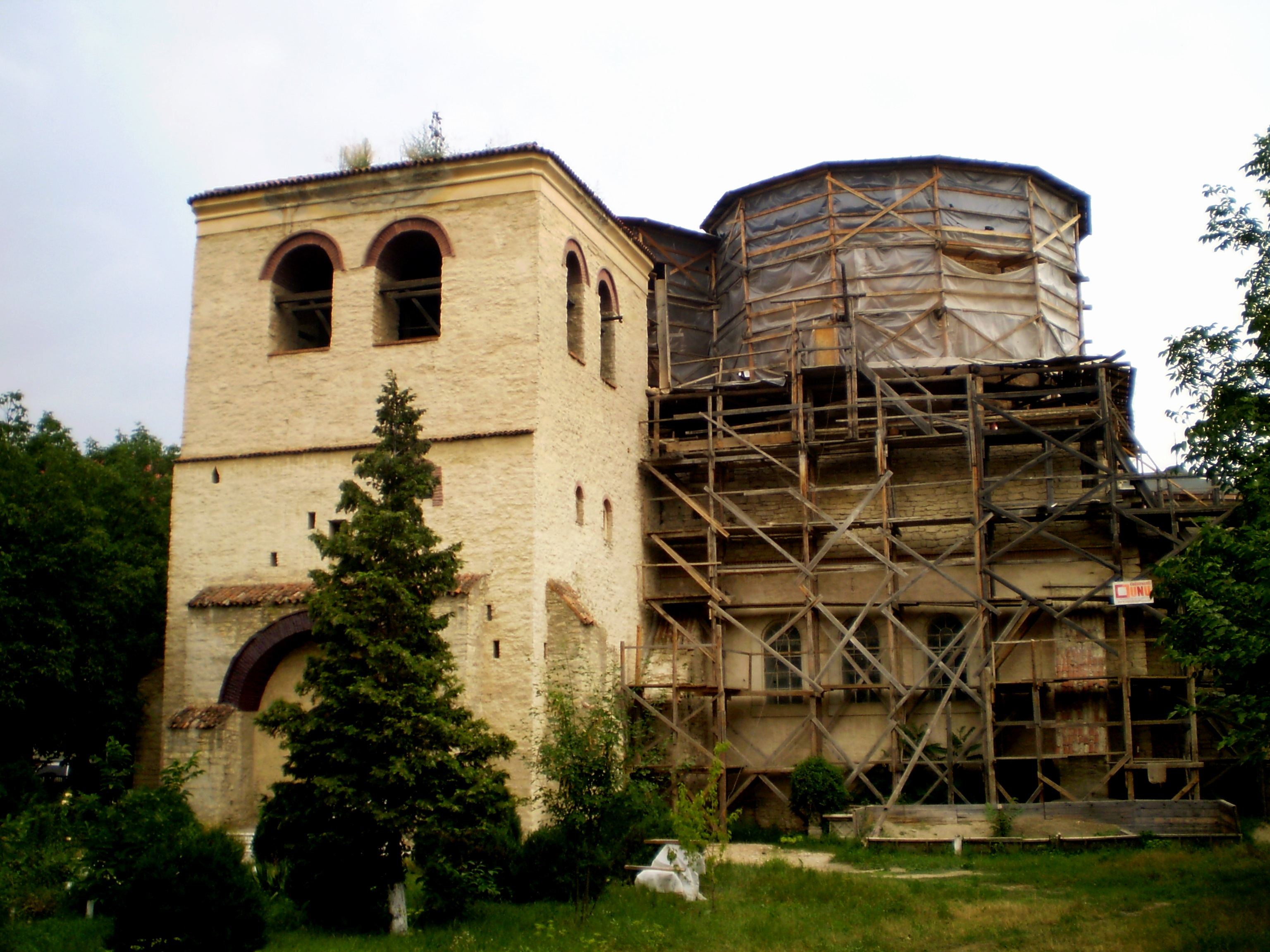 Saint Sava Church,Iaşi,Romania